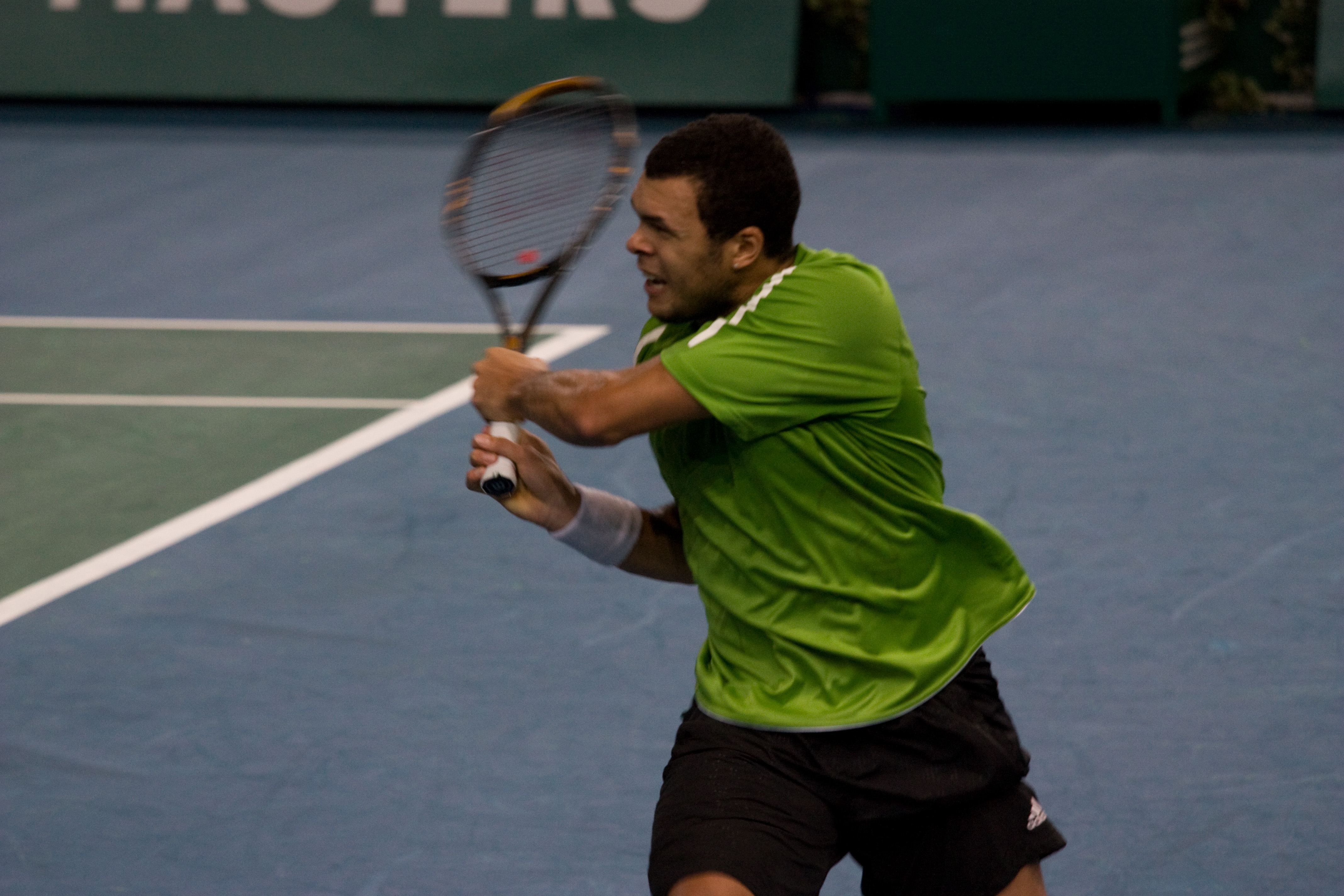 Jo-Wilfried Tsonga against Radek Stepanek at the 2008 BNP Paribas Masters